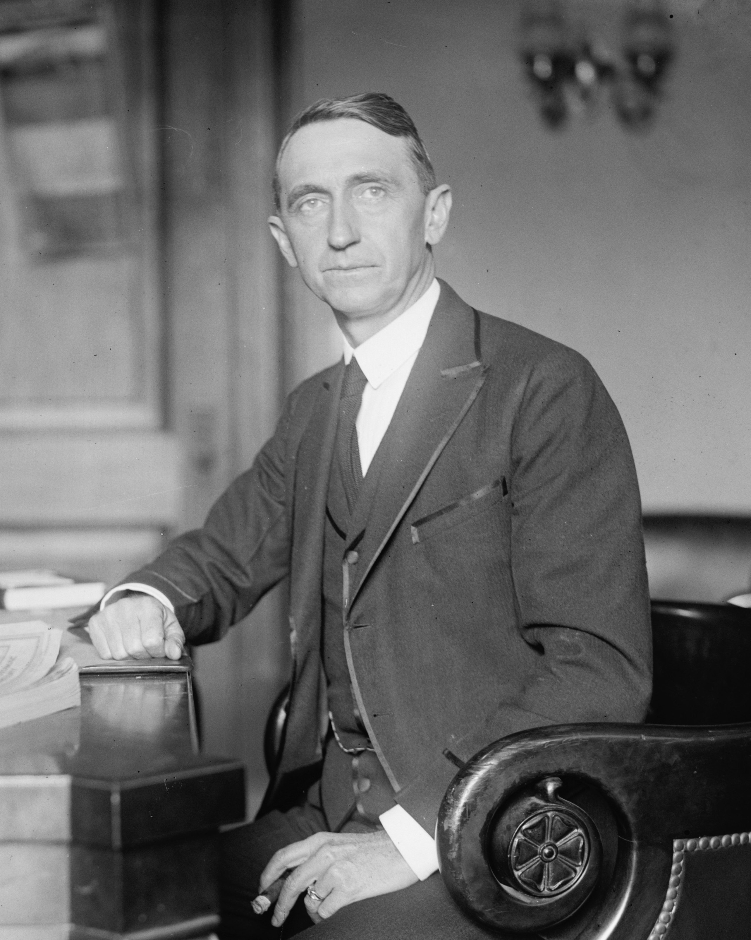 Title: Sen. Walter F. George of Georgia, [11/20/22] Abstract/medium: National Photo Company Collection (Library of Congress) Physical description: 1 negative